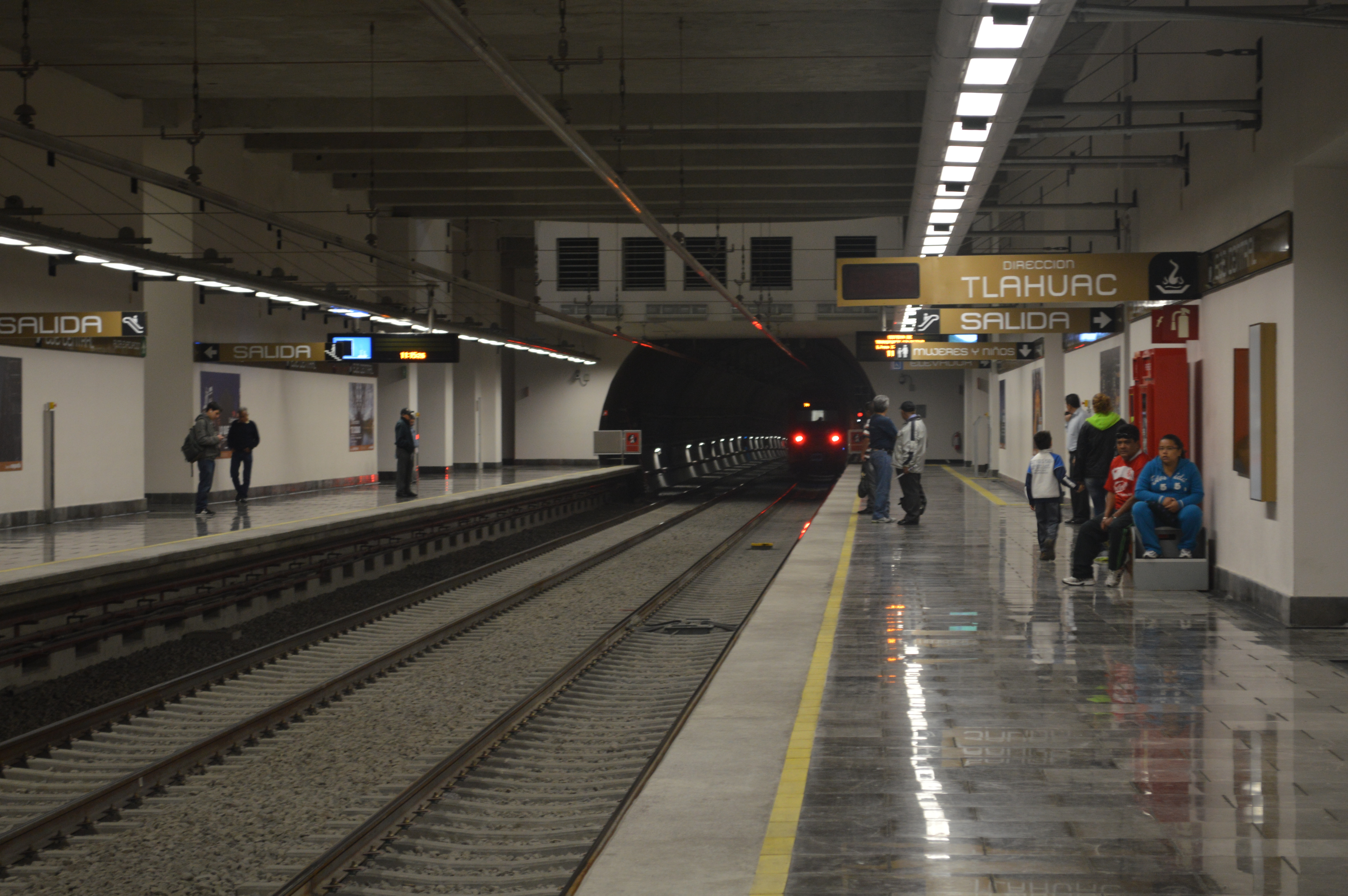 View inside the Eje Central station of Mexico City Metro Line 12